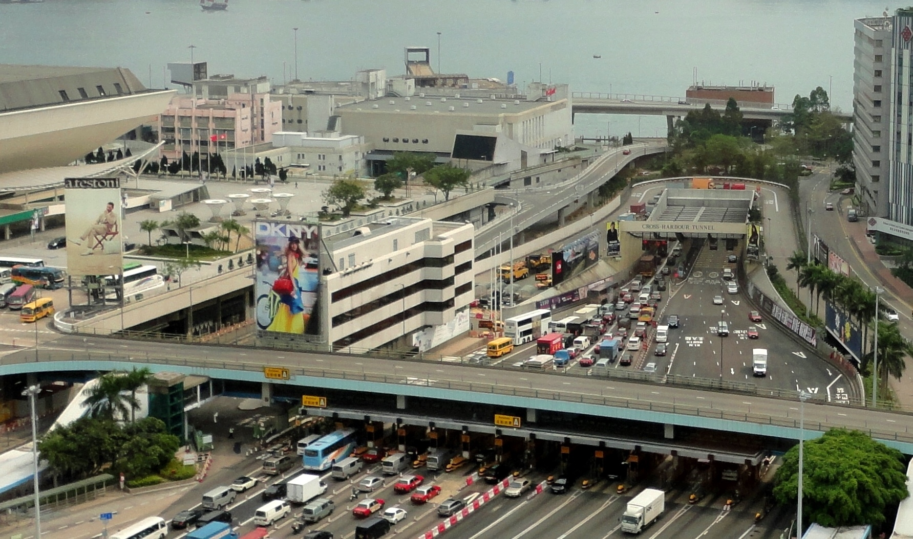 Cross-Harbour Tunnel (north entrance in Hung Hom). Cropped version from File:Cross-Harbour Tunnel from Li Ka Shing Tower.jpg.